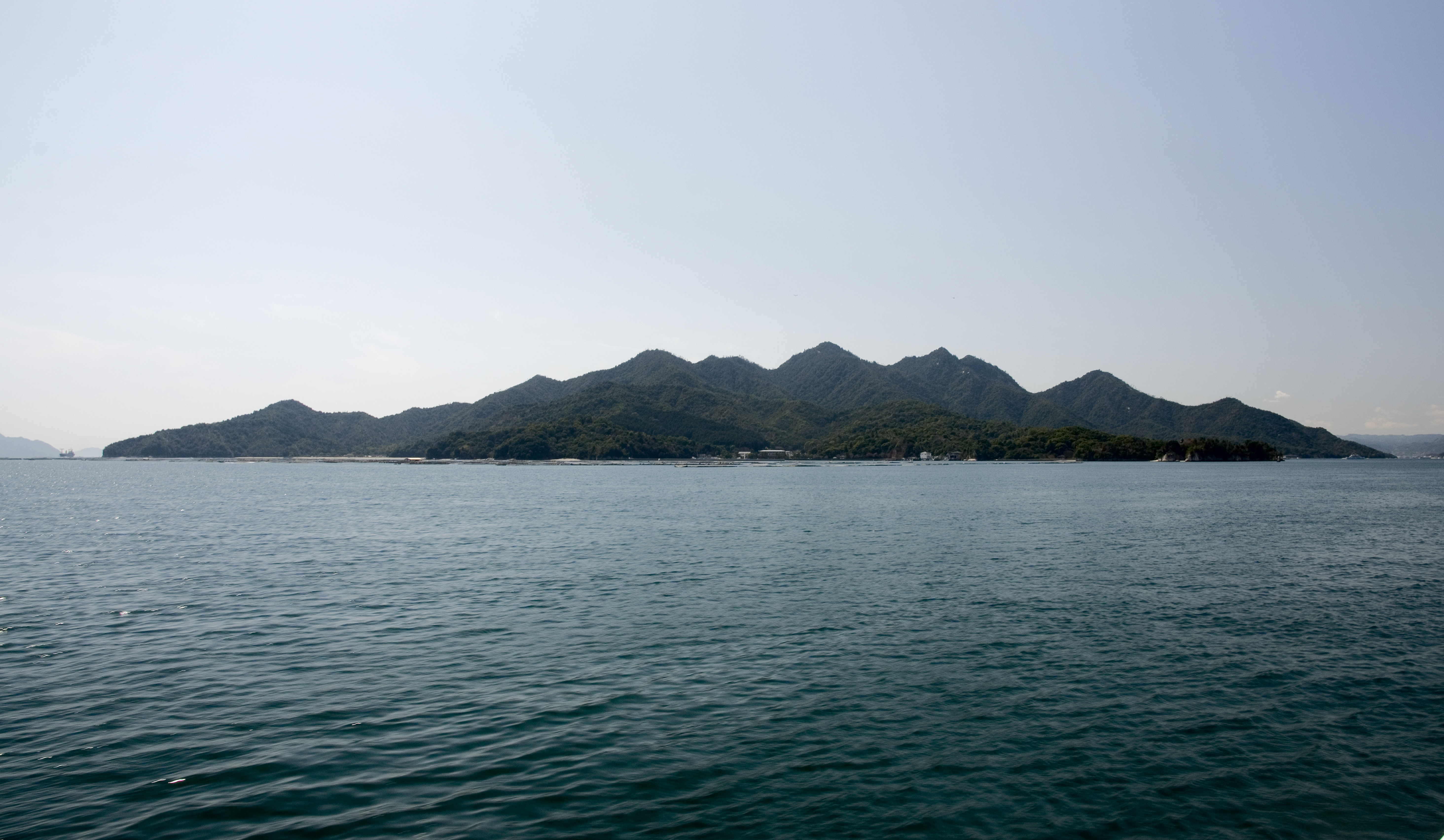 Miyajima also known as Itsukushima island in Inland sea, Japan